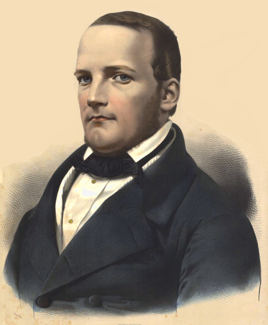 Stanisław Moniuszko